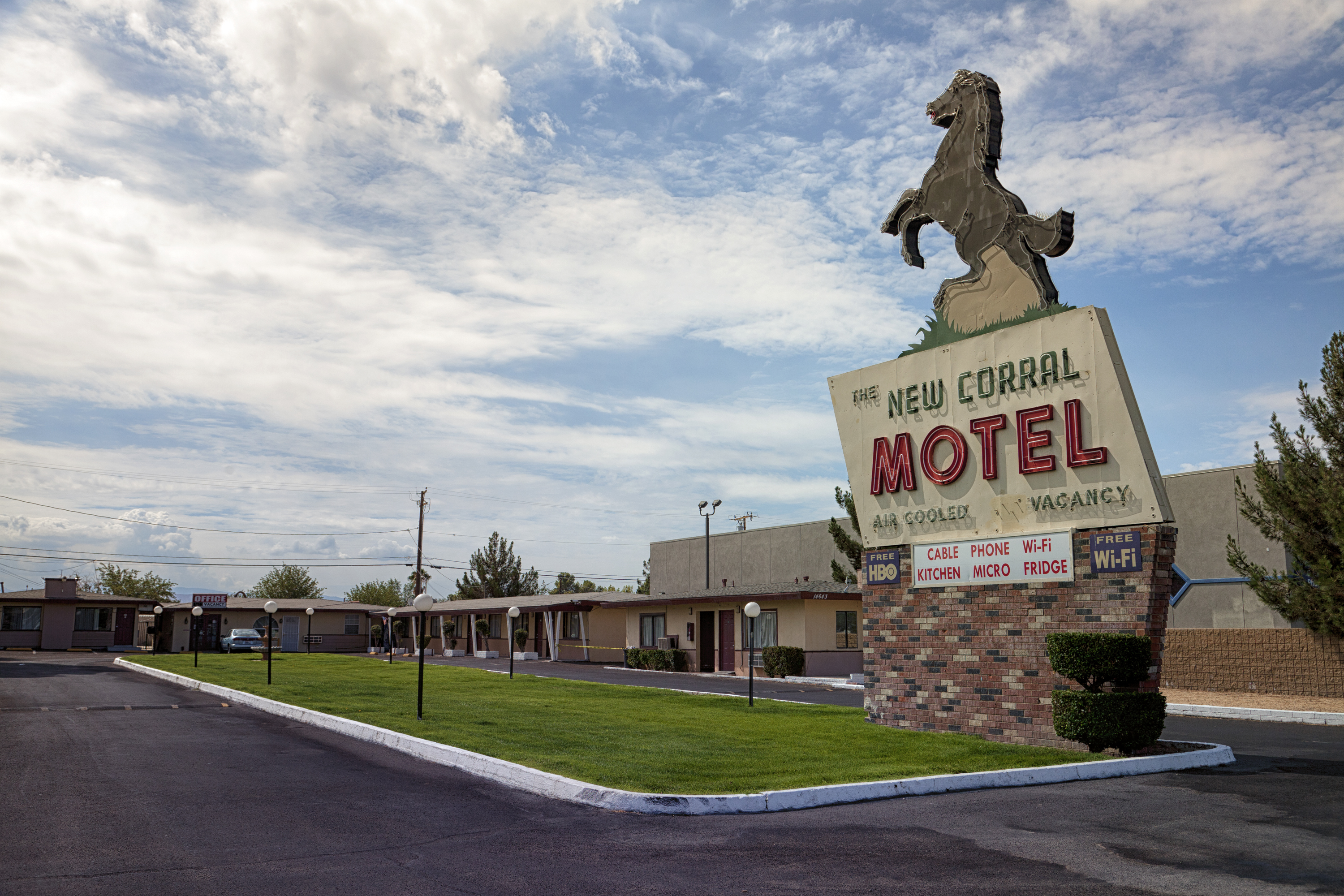 What? No Pool?